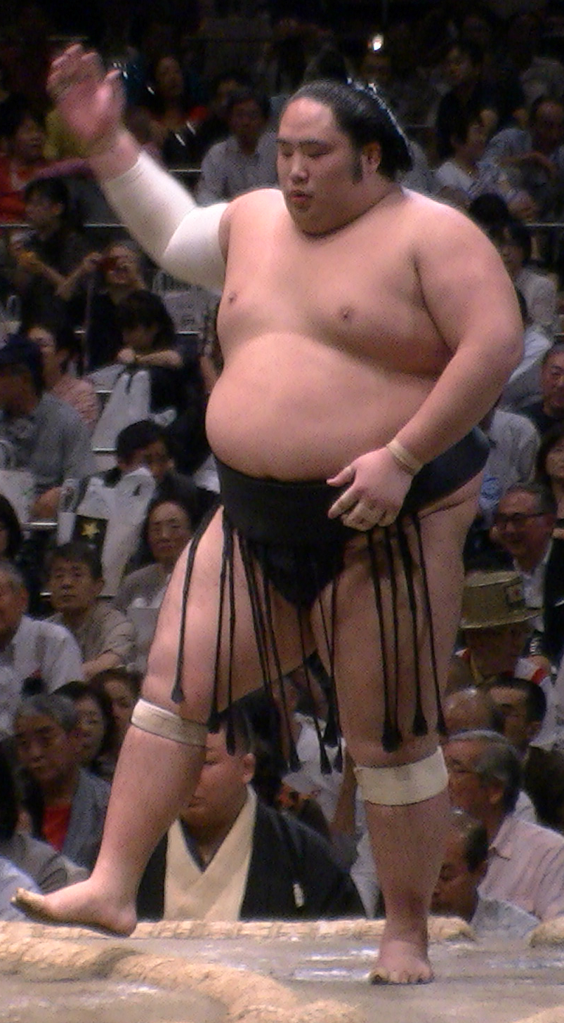 Taken at Sept 2014 tournament